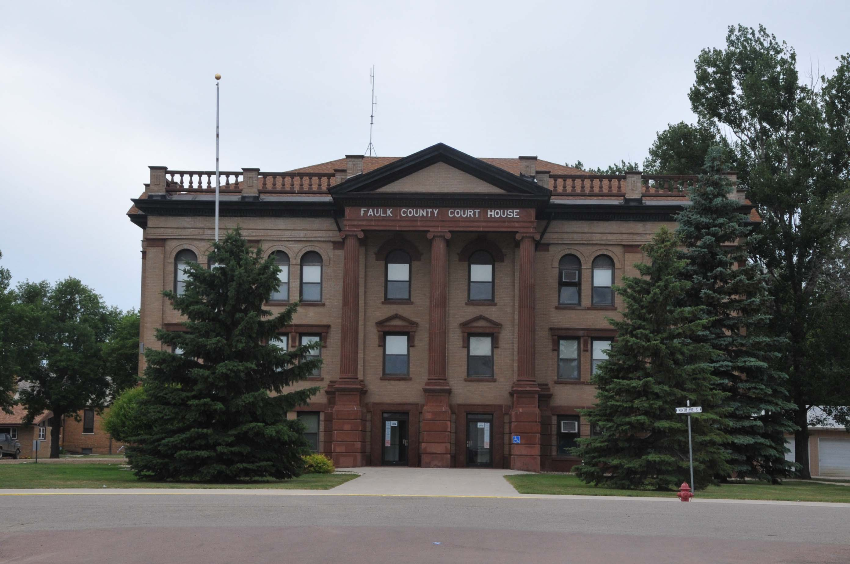 BUILT IN 1905, LATE 19TH AND 20TH CENTURY REVIVAL